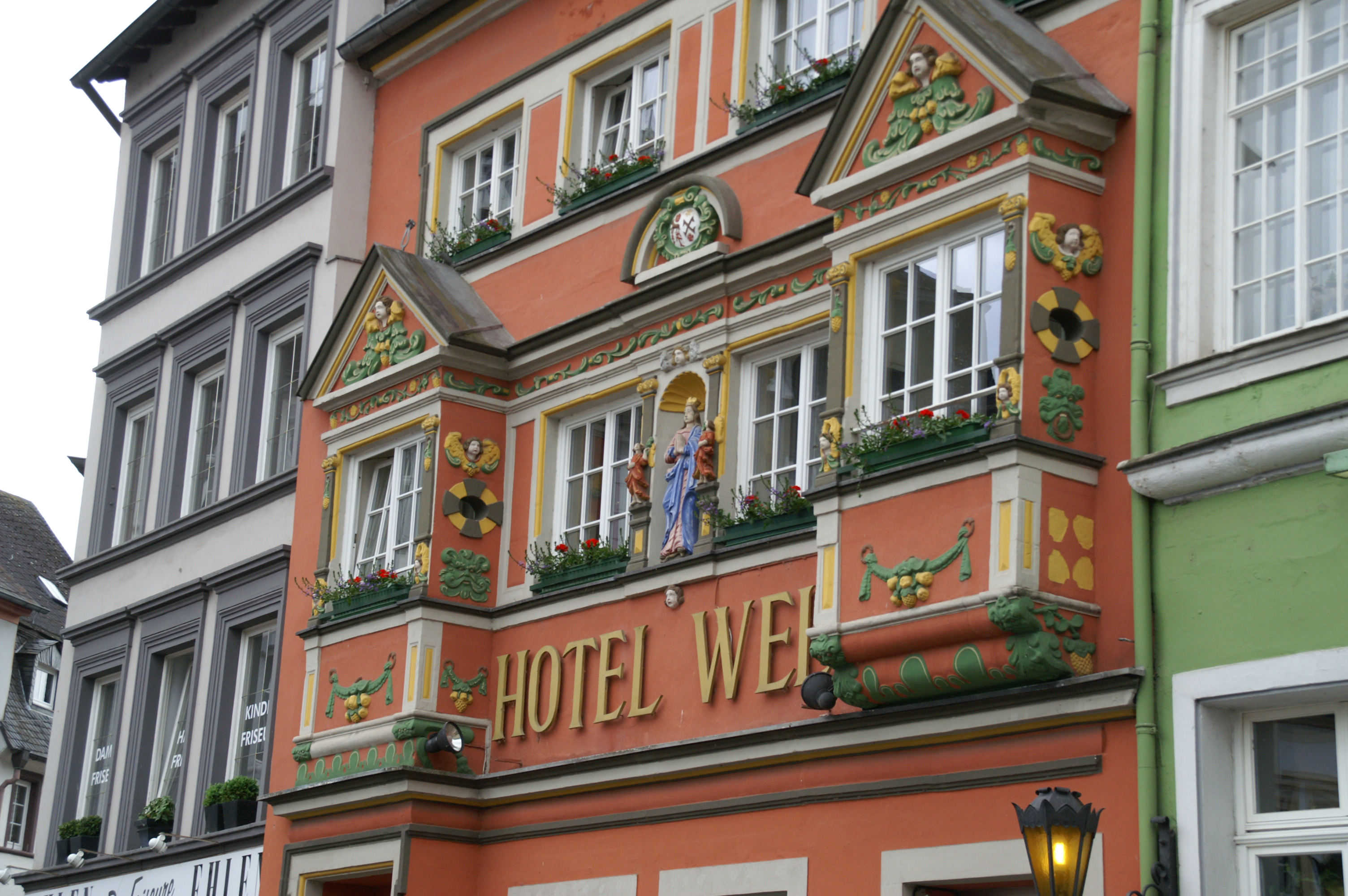 Houses on Market square in Wittlich, Germany